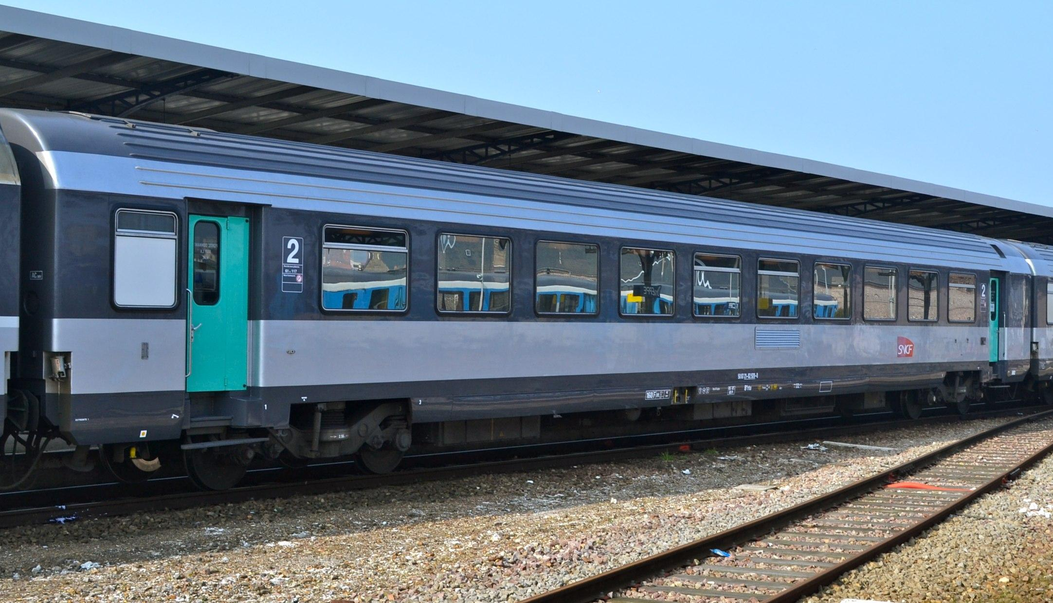 2nd class railway carriage (SNCF B10rtu)